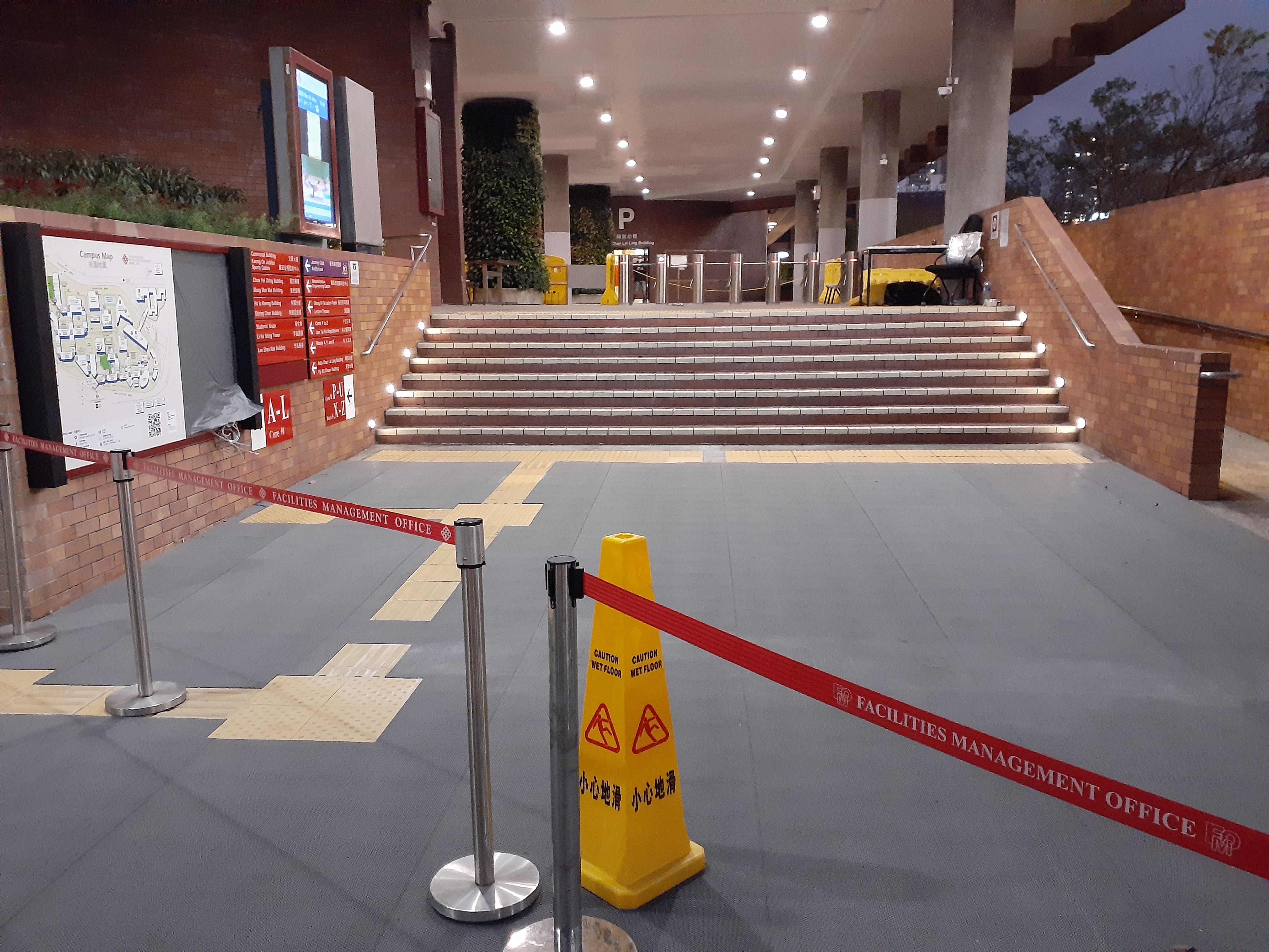 HK 紅磡 Hung Hom 康莊道 Hong Chong Road HKPolyU campus 香港理工大學 Hong Kong Polytechnic University in March 2020